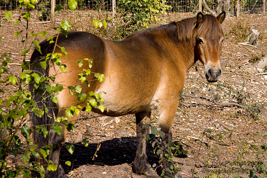 Two Exmoor ponies are currently on loan to Bredhurst Woodland Action Group from Kent Wildlife Trust. The ponies are grazing land to help restore it to the chalk grassland it once was.